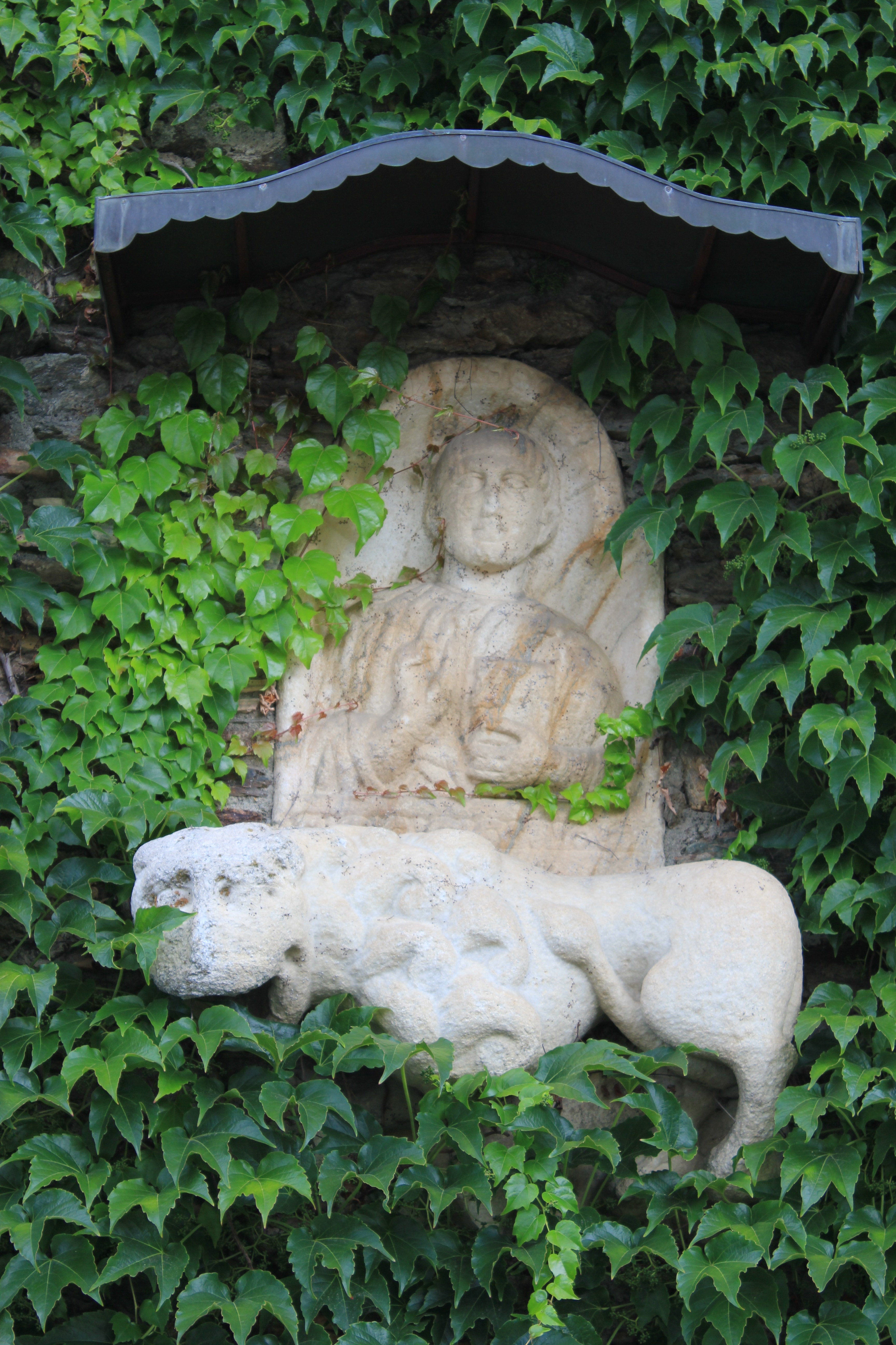 Relict of the city-wall in Straßburg - sculpture of Walther von Vatz